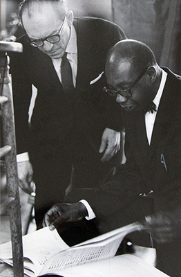 Quote of the caption of this photo. "Professor George Walker proudly listened to the premiere performance of his "Address for Orchestra" give to a Harlem audience in the theater of a high school. The following day the same concert was given on-stage of Lincoln Center for the Performing Arts. Professor Walker teaches music at Smith College and has toured Europe and the United States as a concert pianist. Mr. Walker is shown here going over his work with Benjamin Steinberg, director of the Symphony of the New World." Other information On this web link you can find corroboration of Prof. Walker, Address for Orchestra, and the Symphony of the New World. "Address for orchestra (1959; rev. 1995). [New York: MCA Music, 1970 (#16714-044). 108p.] 1. Poco adagio – allegro; 2. Molto adagio; 3. Passacaglia. Instrumentation: 3332, p Eh bcl cbsn, 4221, timp, perc, harp, strings. Dedication: "To my parents." Duration: 19:00. Premiere (outer movements): 1968; New York, Lincoln Center; Symphony of the New World; Benjamin Steinberg, conductor; (complete work): 1971; Belgium; Mons Festival. Library: Library of Congress (LC 72-259901). Saint Louis: MMB Music (X077010). 1. Poco adagio – allegro. AT: Symphony of the New World; Benjamin Steinberg, conductor (1968). 3. Passacaglia. AT: Symphony of the New World; Benjamin Steinberg, conductor (1968)."